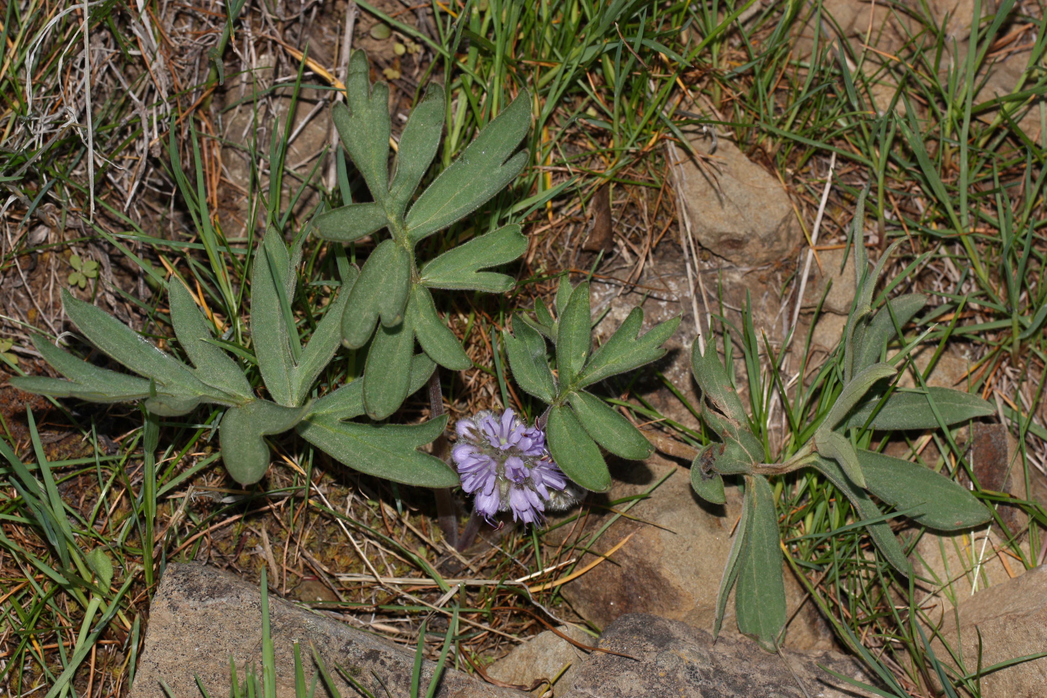 Ballhead Waterleaf, Wool Breeches